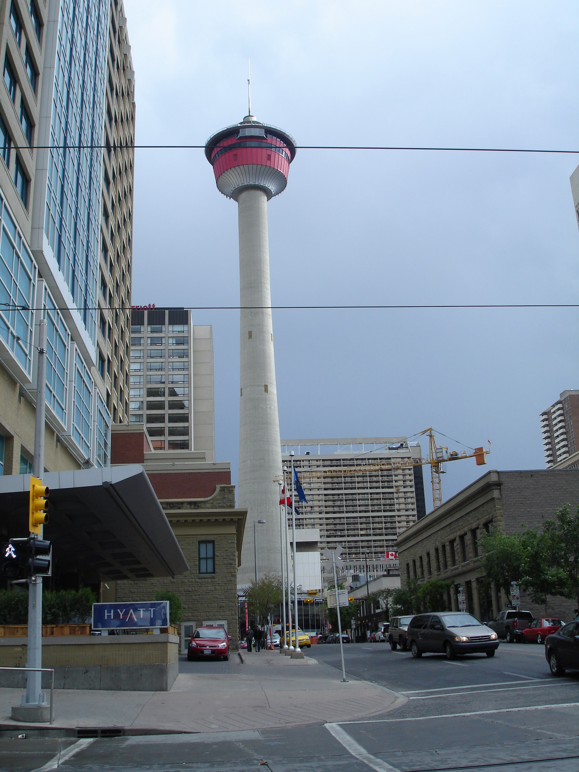 This is a photograph of Calgary Tower taken on 4th August, 2008 by myself.